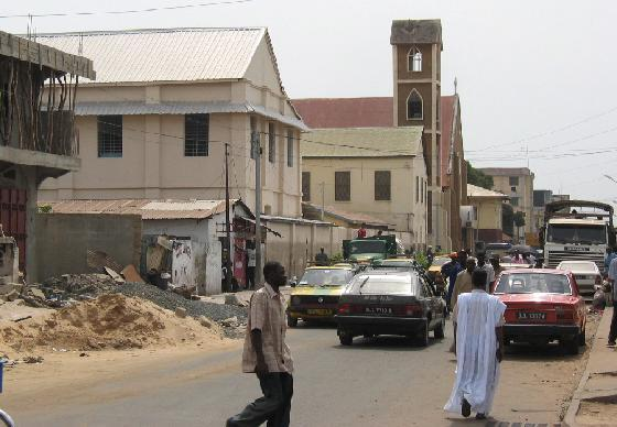 Banjul, Eastern part of the town, west of Wellington street